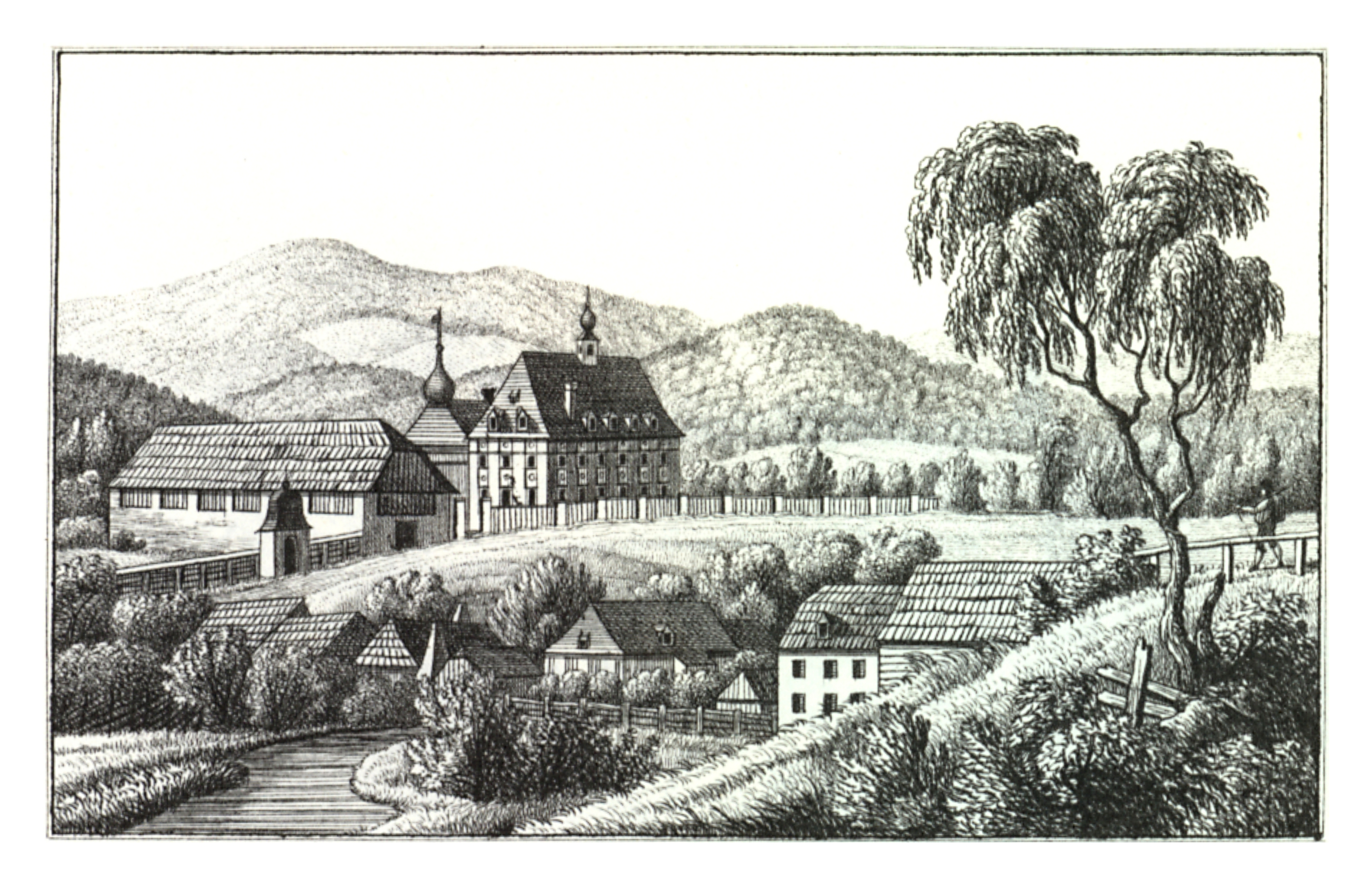 J. F. Kaiser - lithographirte Ansichten der Steyermärkischen Städte, Märkte und Schlösser Graz, 1825 Scanprojekt Community Projektbudget 2012 This scan or this PDF-file was created within the GLAM-project Bookscanning, supported by Wikimedia Germany and Wikimedia Austria as a part of the community-project to capture books, documents and pictures which are not eligible to copyright or for which the copyright has expired. This document describes or depicts an object which is located in Austria today. Send requests for uncompressed scans to Hubertl. This work is in the public domain in its country of origin and other countries and areas where the copyright term is the author's life plus 100 years or less. You must also include a United States public domain tag to indicate why this work is in the public domain in the United States. This file has been identified as being free of known restrictions under copyright law, including all related and neighboring rights.